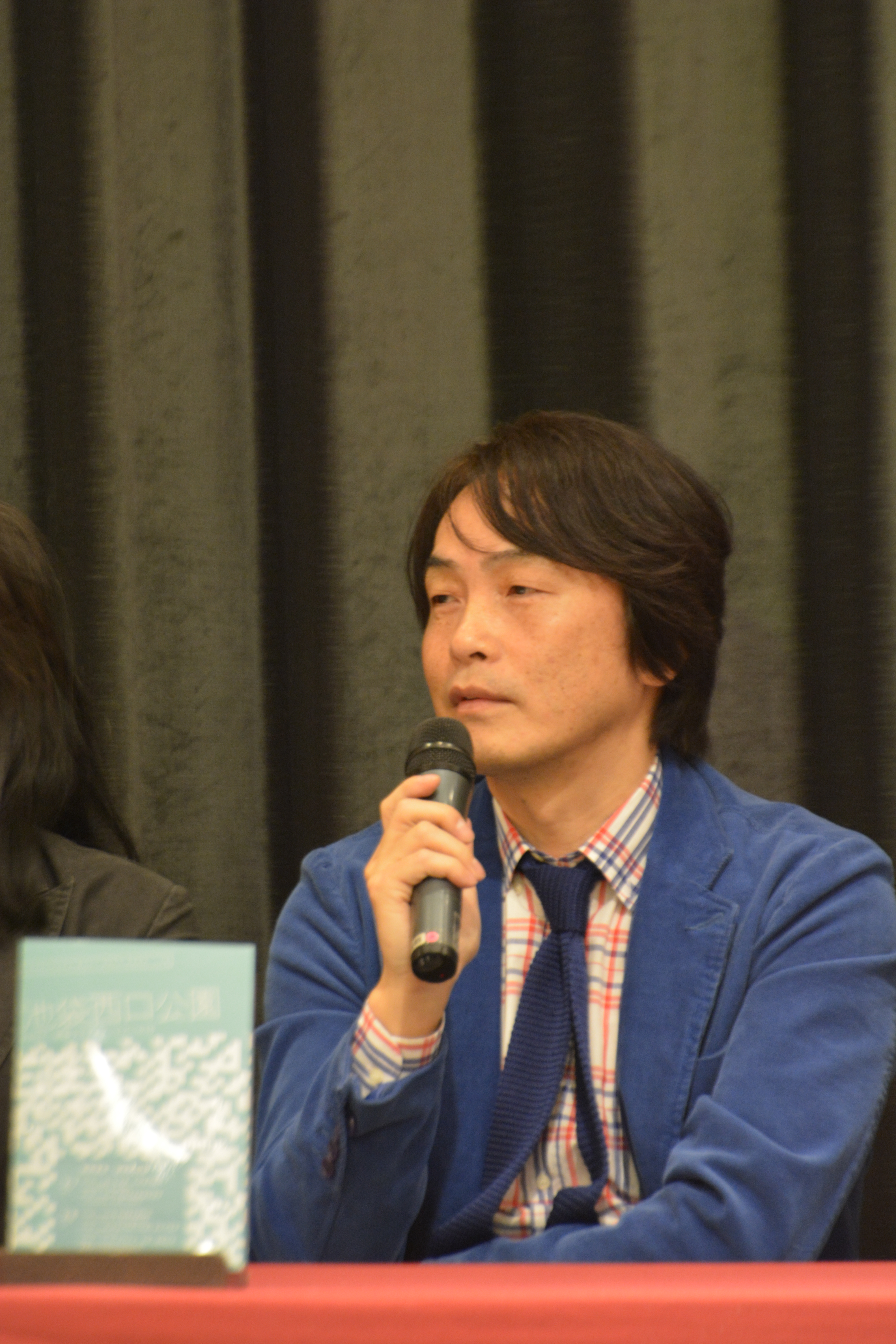 Ira Ishida, a Japanese writer. Photo at Eslite bookstore Hsin-yi branch, Taipei, Taiwan.